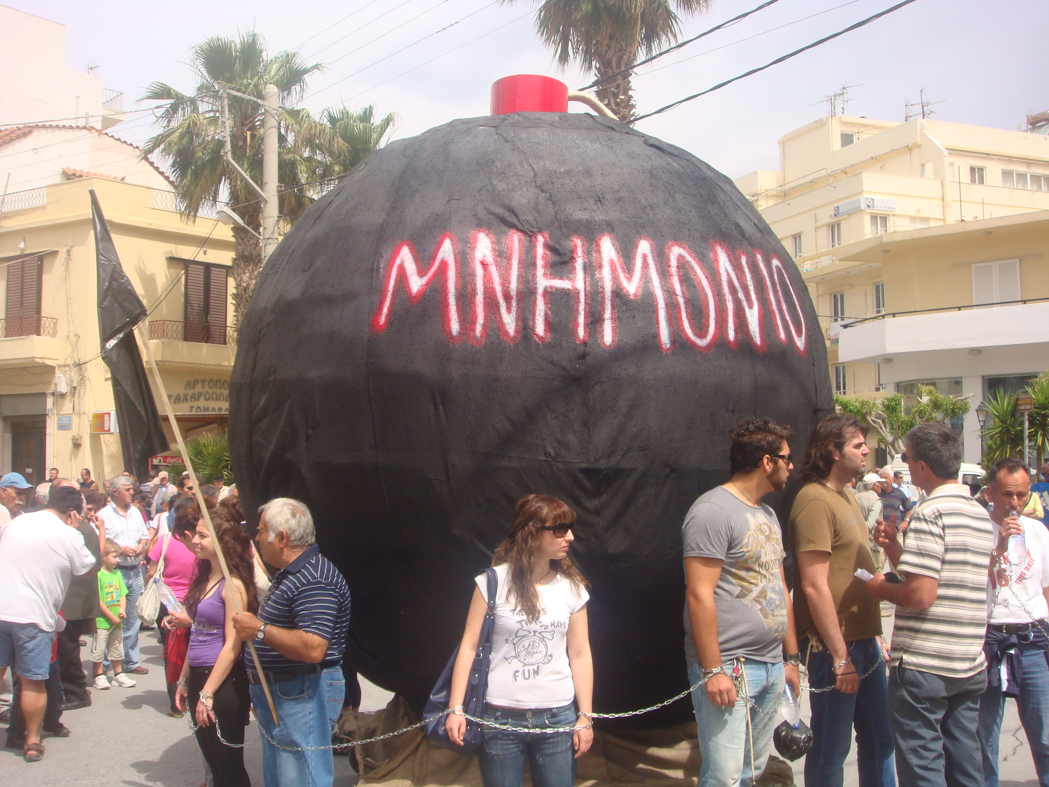 People in Ierapetra shackle themselves in front of a huge bomb-shaped ball, symbolising the burden coming from the IMF and EU policies imposed on the socialist government of Greece. Demonstrators marched peacefully and protested the degradation of the hospital of Ierapetra. After the march, which drew around 1,000 people, protestors occupied the town hall.